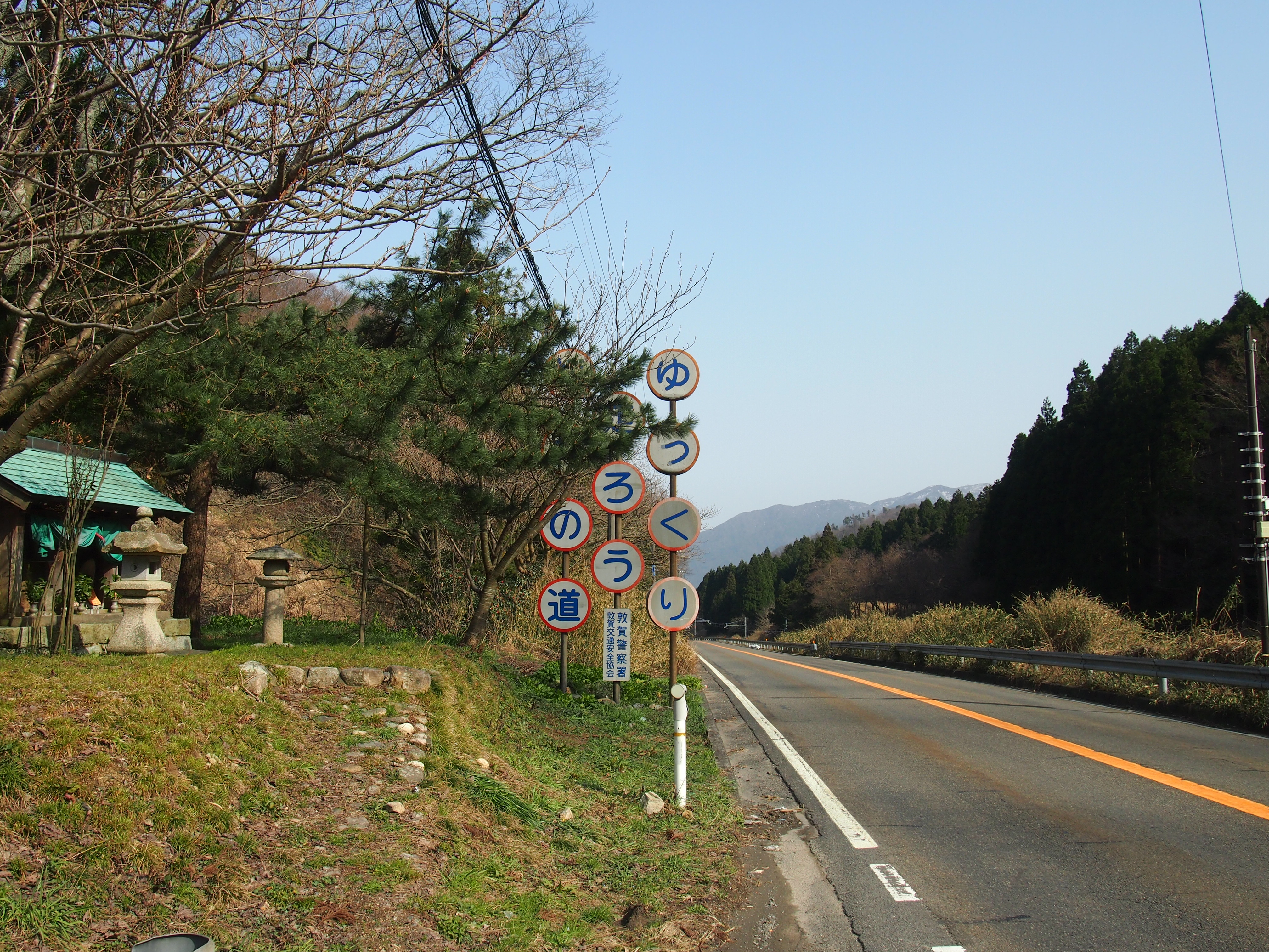 Seki pass is the boundary between the Tsuruga and Mihama in Fukui.